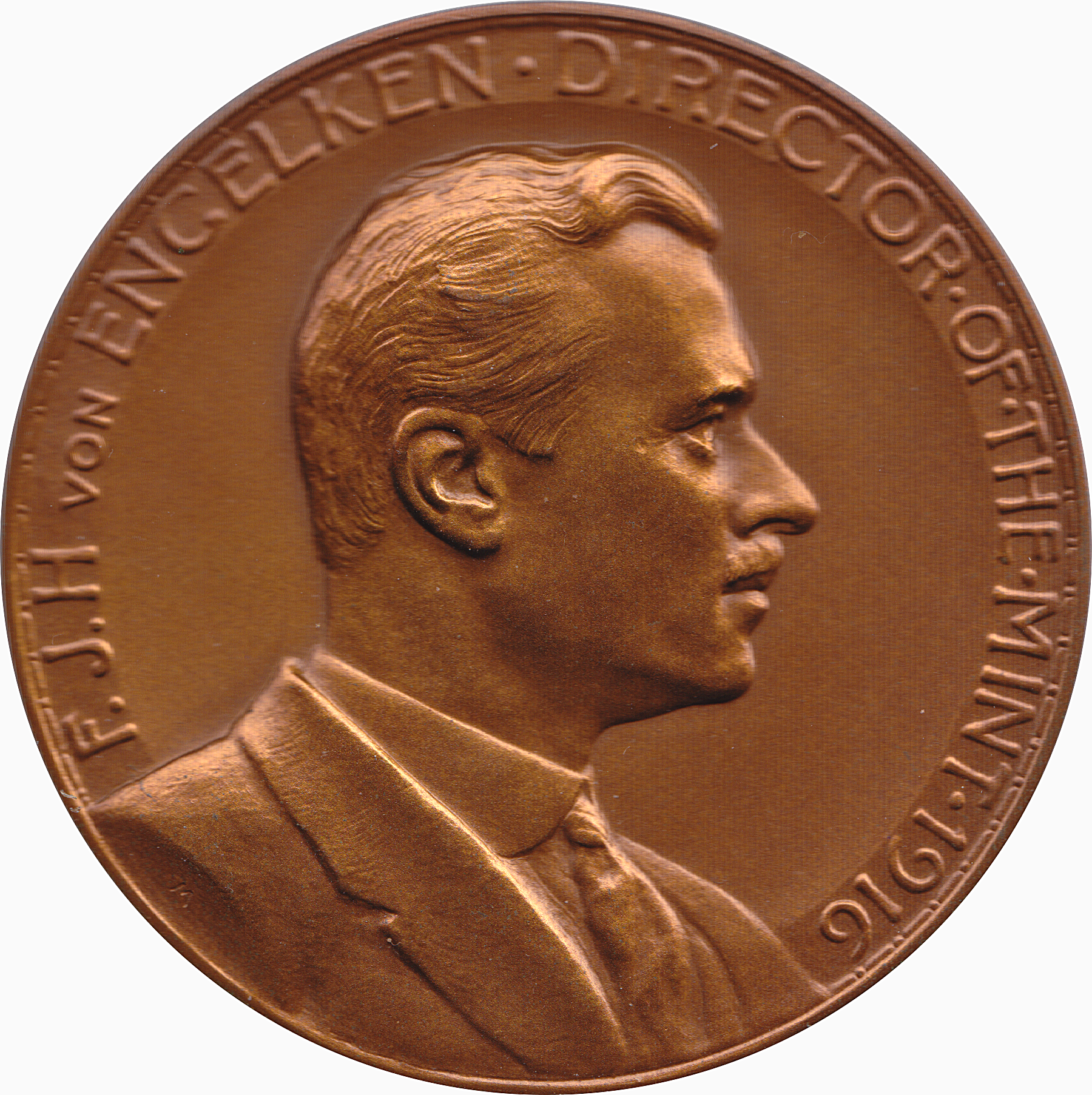 Mint medal honoring the service of Director of the Mint Friedrich Johannes Hugo von Engelken (1881–1930), 1916-1917. It was designed by Assistant Mint Engraver Morgan.